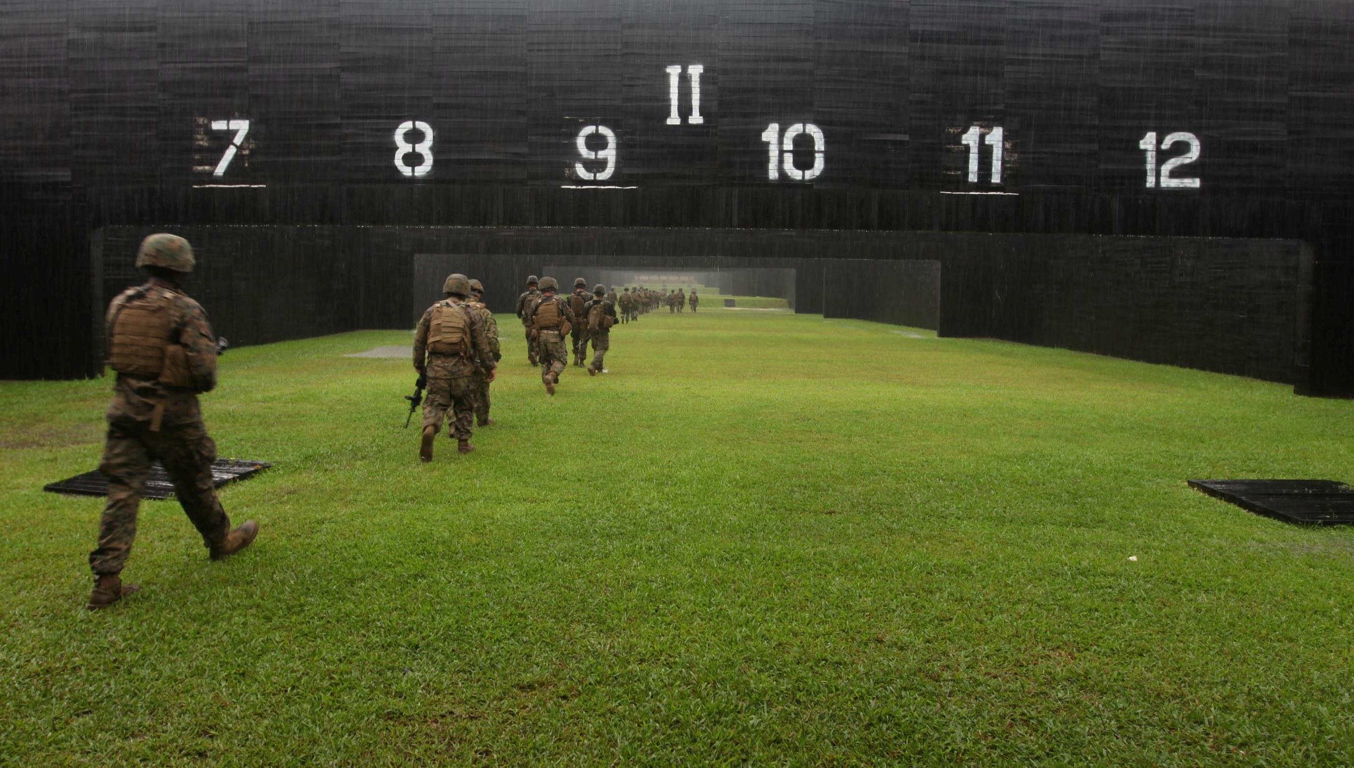 MURAI, Singapore (Dec. 19, 2011) Marines and Sailors assigned to the 11th Marine Expeditionary Unit (11th MEU) participate in a live-fire exercise. The 11th MEU is operating in the U.S. 7th Fleet area of responsibility as part of the Makin Island Amphibious Ready Group. (U.S. Marine Corps photo by Sgt. Elyssa Quesada)